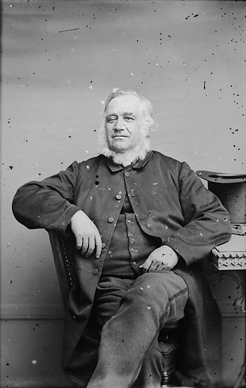 1 negative : glass, wet collodion, b&w ; 11 x 16.5 cm.